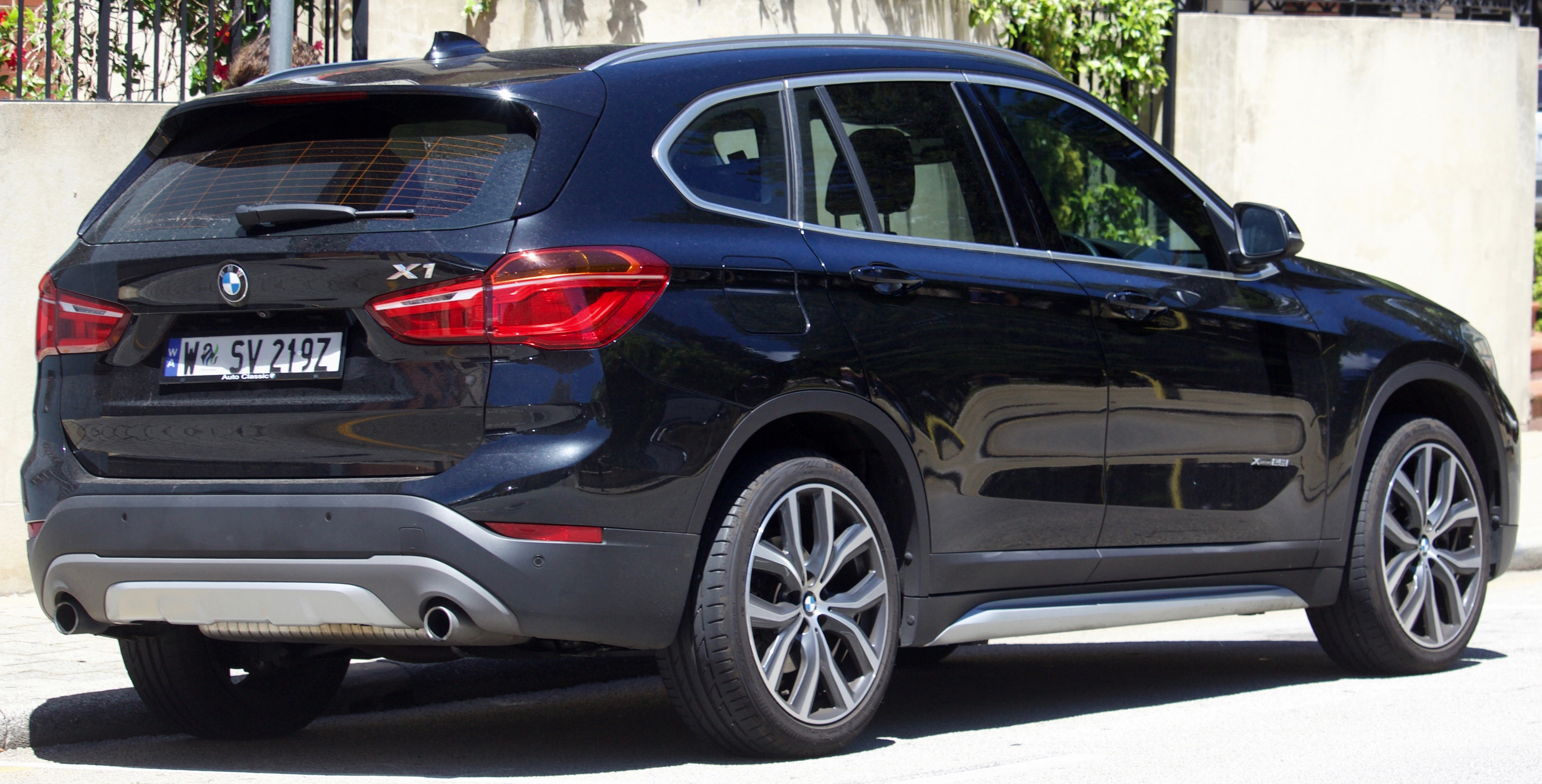 2015-2017 BMW X1 (F48) xDrive25i wagon. Photographed in Fremantle, Western Australia, Australia.